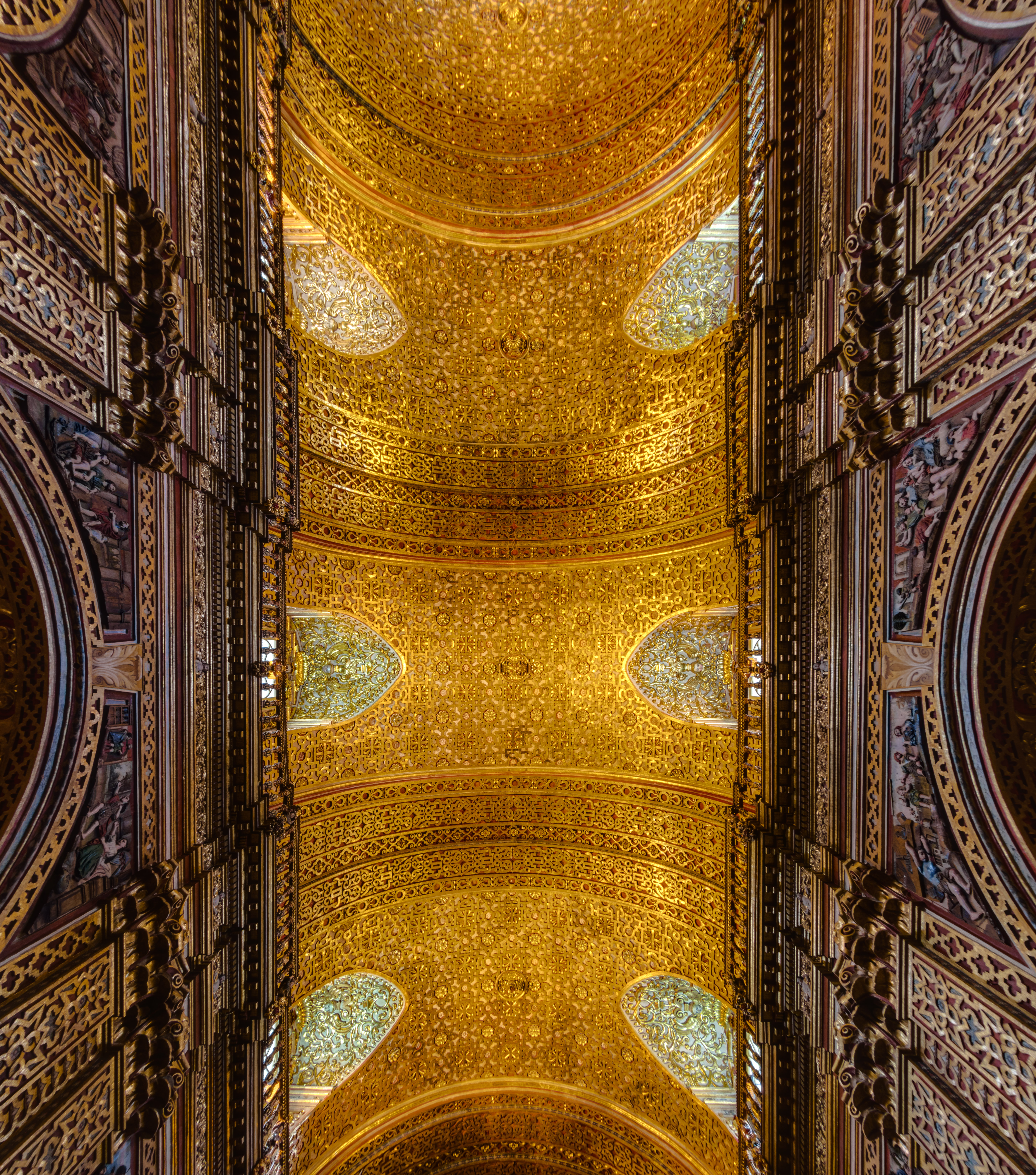 Church of the Society of Jesus, Quito, Ecuador